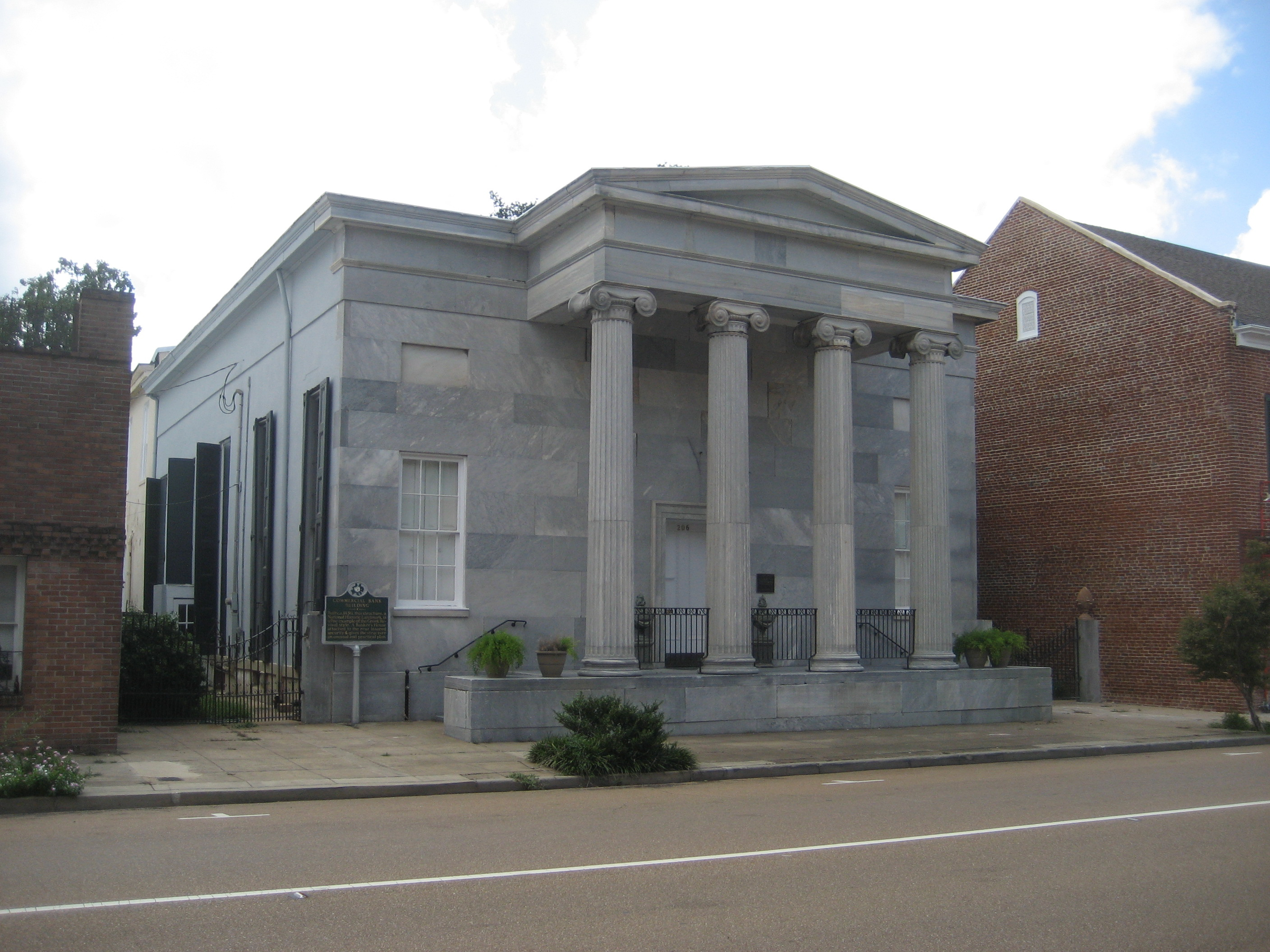 Old section of Natchez, Mississippi. Old Commerical Bank building